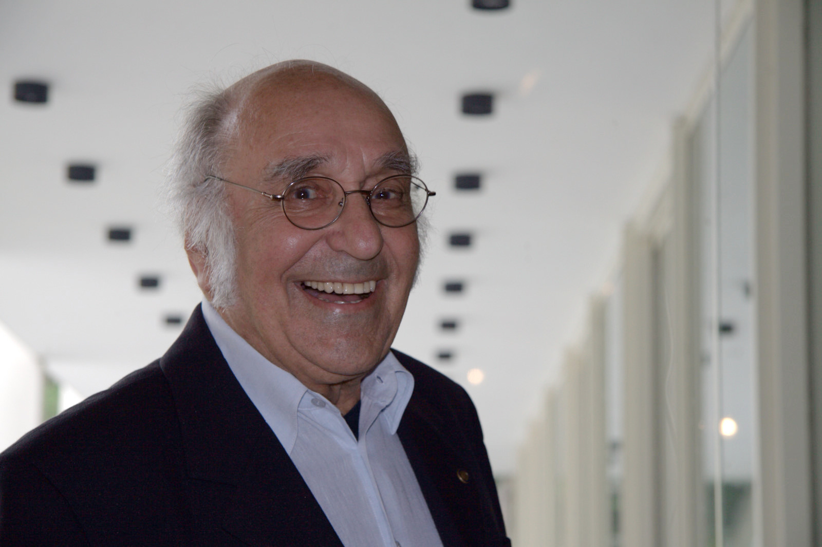 German industrial designer, art worker, photographer Professor Bernhard Jablonski